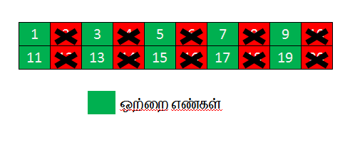 odd numbers